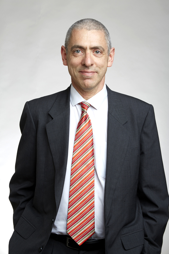 Peter Samuel Dayan is director at the Max Planck Institute for Biological Cybernetics in Tübingen, Germany Attribution: The Royal Society